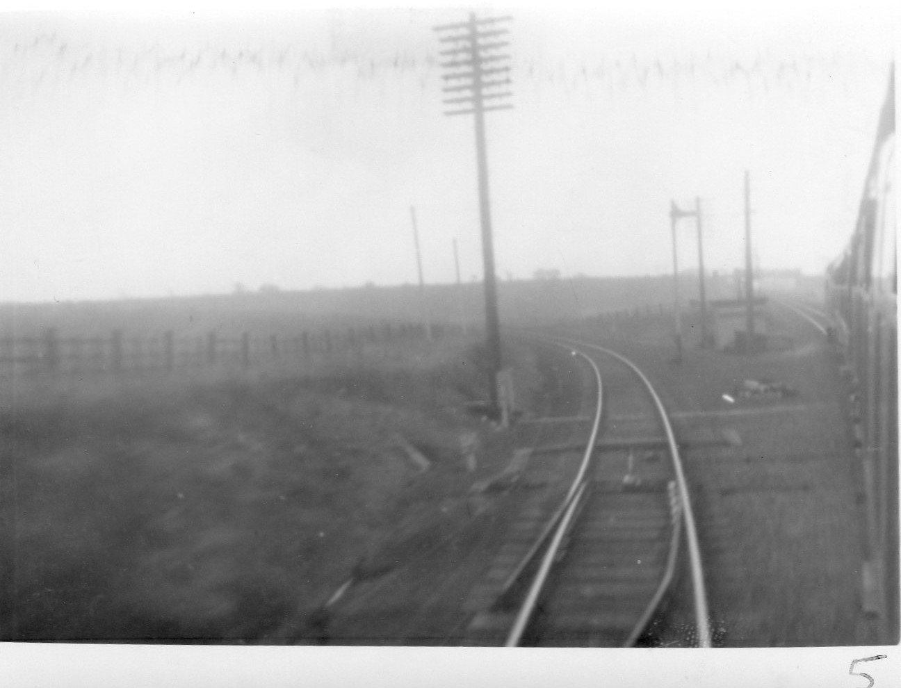 I took this photo from the southbound York-Bournemouth train (11:37 ex Sheffield Victoria) in Feb 1965. It shows the rationalised Duckmanton North Junction, Derbyshire, looking South East. Ahead of the train can be seen the South-to-East flyover still in place, but devoid of tracks.